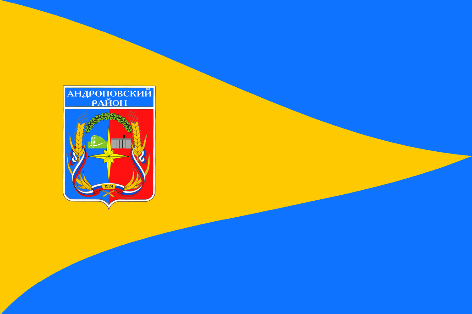 Flag of Andropovsky rayon, Stavropol Territory, Russia